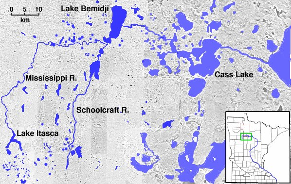 The upper Mississippi River in northern Minnesota